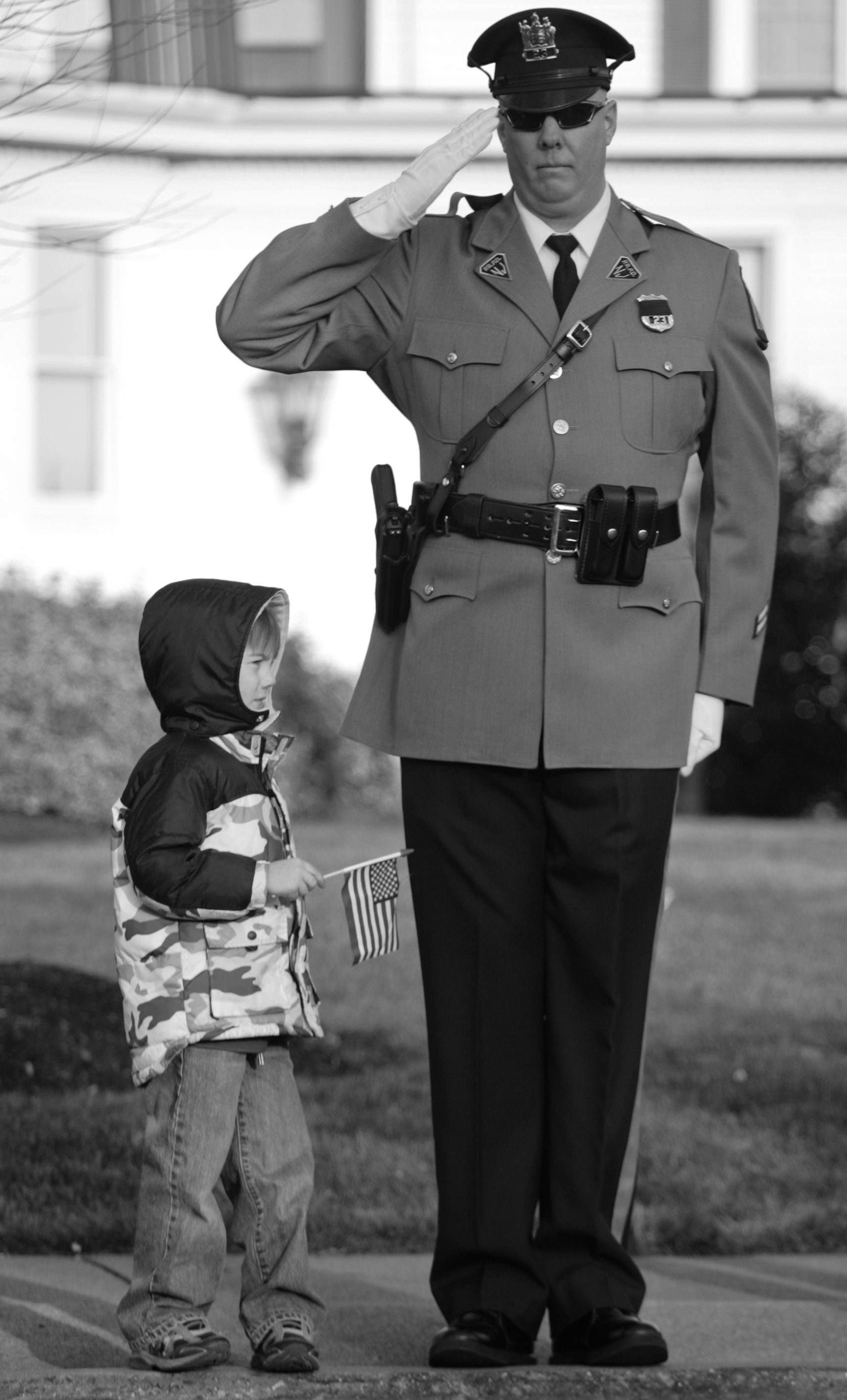 WESTWOOD, N.J. - A police officer salutes the procession for Sgt. Christopher R. Hrbek, 25, a Westwood, N.J., native, Jan. 21. He was escorted from Dover Air Force Base, Del., past streets lined with people waving American Flags to Beckers Funeral Home. Hrbek, 3rd Battalion, 10th Marine Regiment, Regimental Combat Team 7, II Marine Expeditionary Force, field artillery cannoneer, died Jan. 14 while conducting combat operations in Helmand Province, Afghanistan. The Bronze Star Medal with combat distinguishing device is scheduled to be presented to his family at his funeral, Jan. 23. The medal was approved for saving the life of his battalion sergeant major after an improvised explosive device severed both his legs during a firefight, Dec. 23. (Official Marine Corps photo by Sgt. Randall A. Clinton)